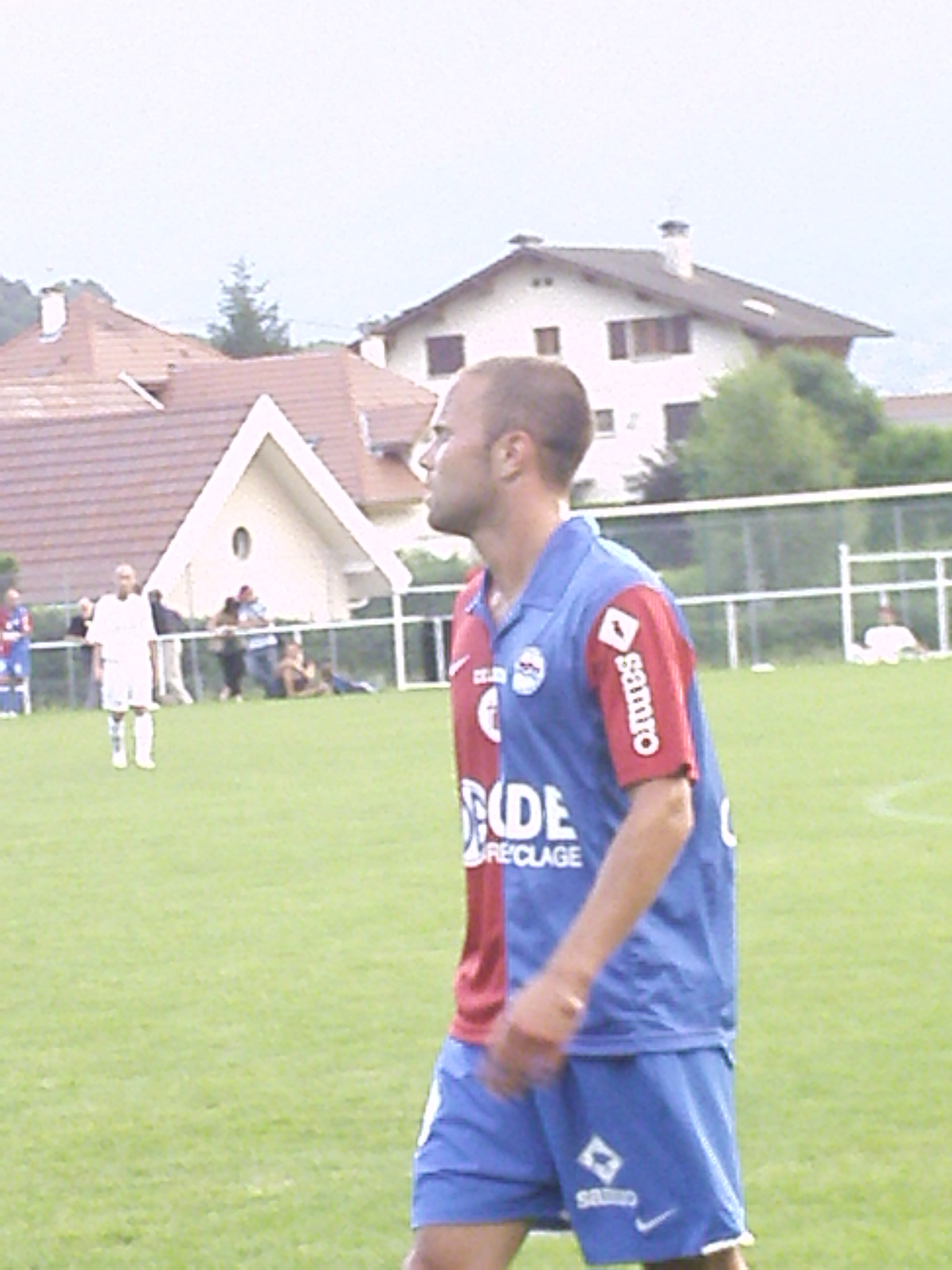 Alex_Raineau